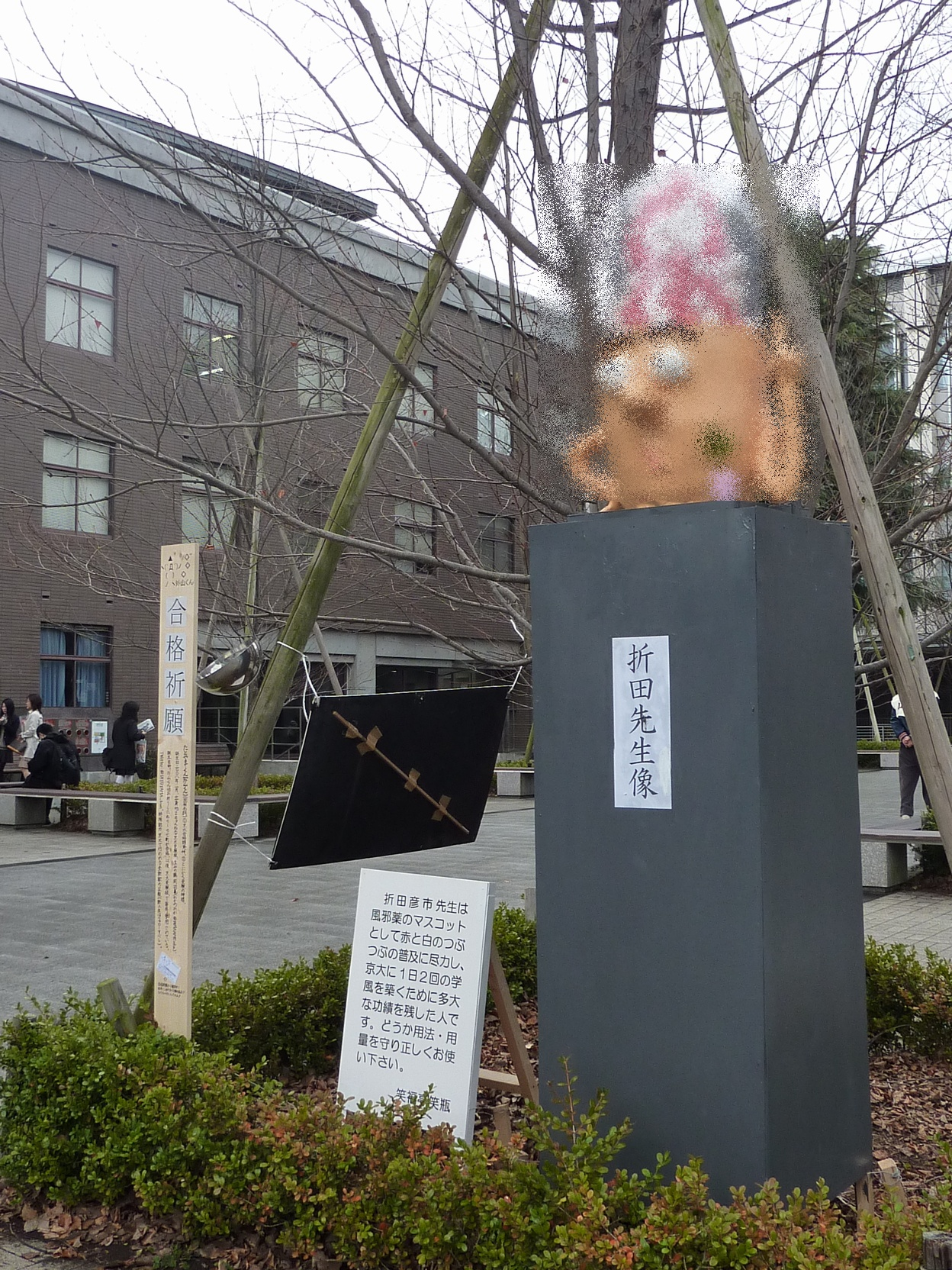 Mr.Orita Statue in 2011 - Kyoto University